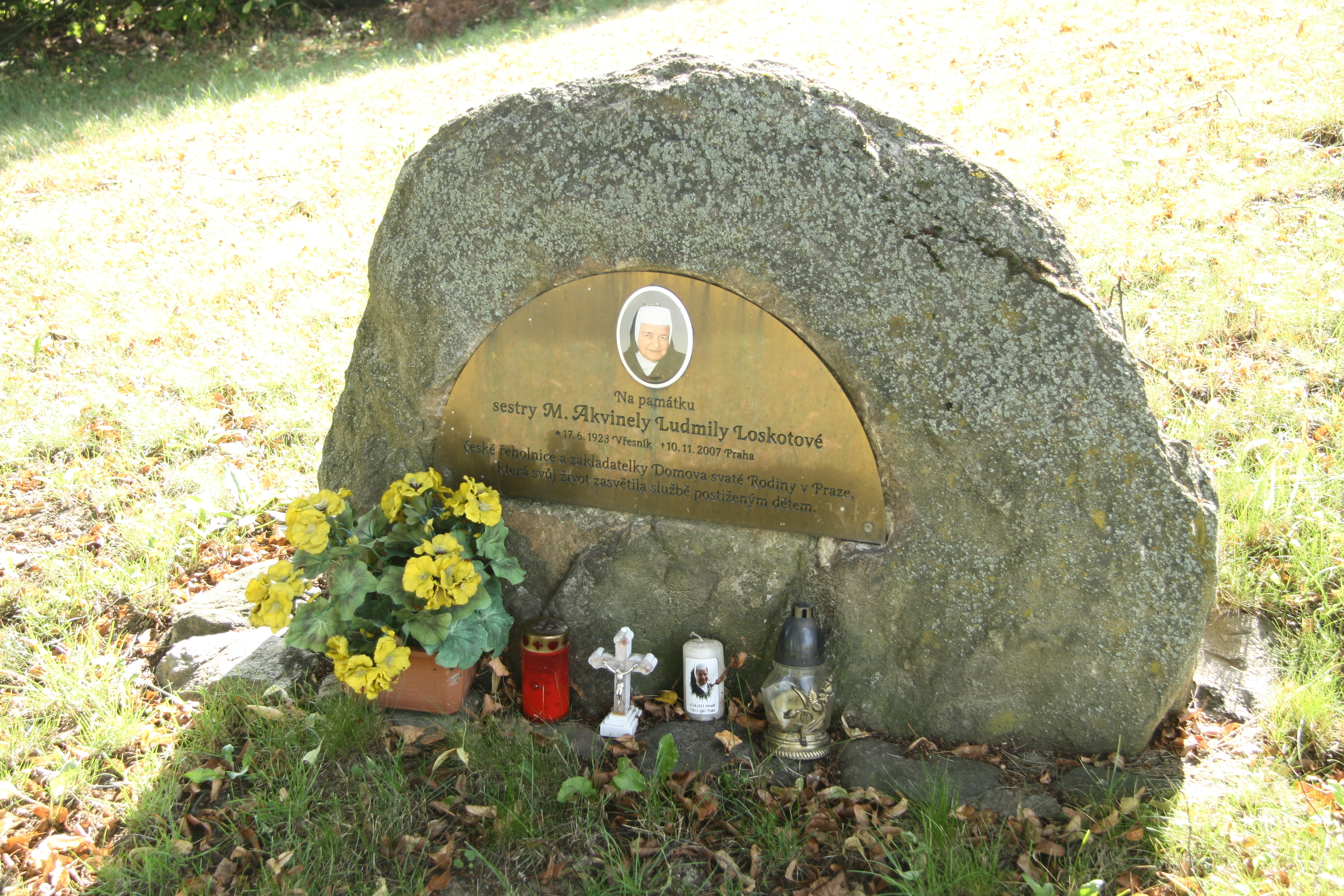 Memorial stone of Akvinela Ludmila Loskotová in Vřesník, Želiv, Pelhřimov District.